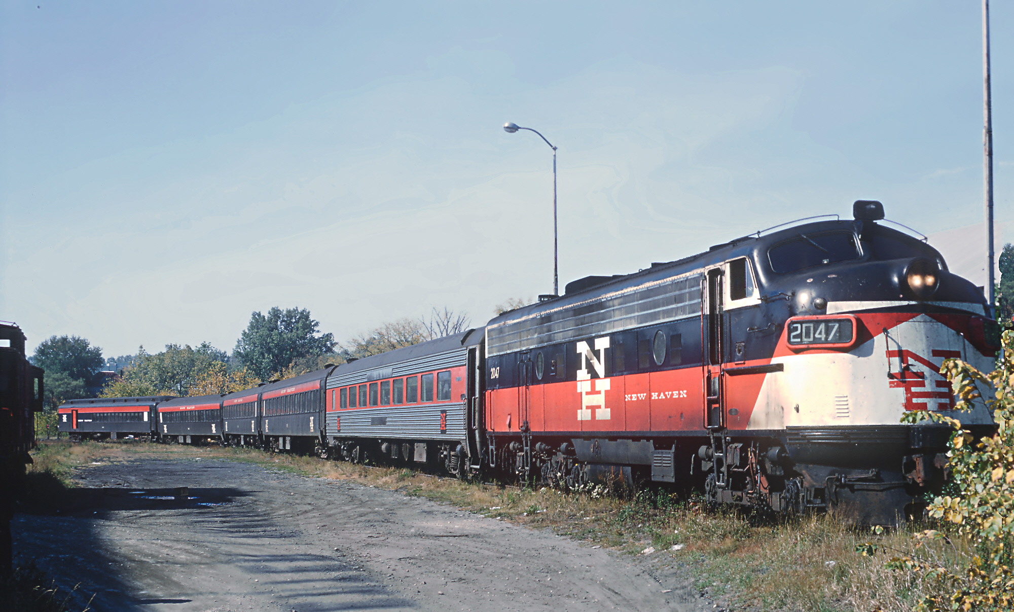 One of the New Haven's two remaining federally-mandated Berkshire Division trains at Pittsfield in October 1968, with a deadheading parlor car. Union Station was being demolished at this time; the New Haven had been using this site with a converted freight house since November 1960. When Penn Central took over in 1969, the weekend trains were converted to Budd RDCs. They were not taken over by Amtrak in 1971.